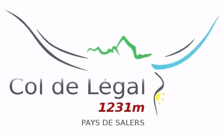 New picture of Col de Legal